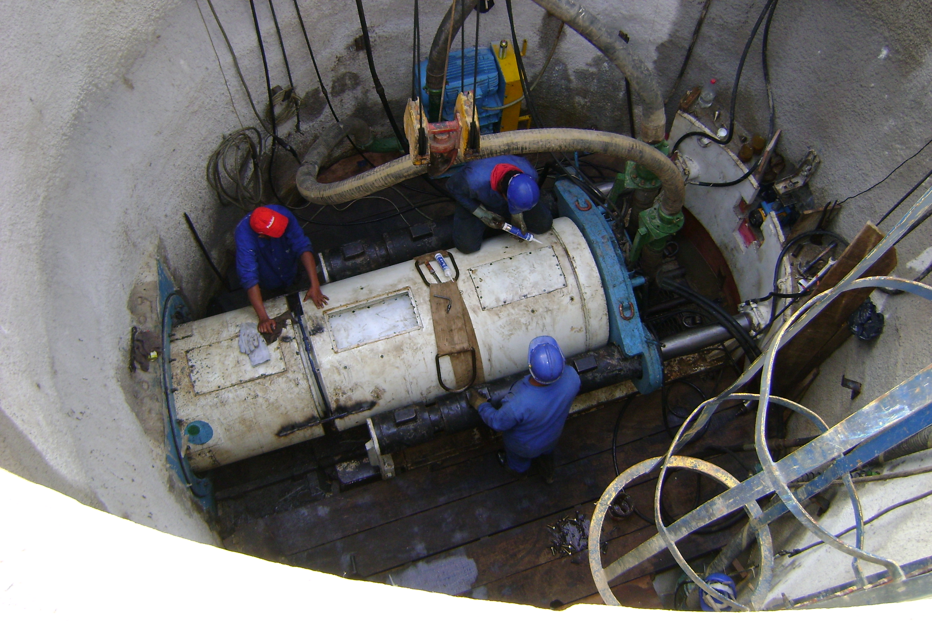 Slurry Pipe Jacking Micro Tunneling Shaft